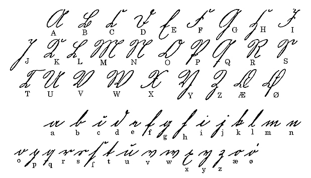 Danish Kurrent script (»gotisk skrift«) with Æ and Ø at the end of the alphabet